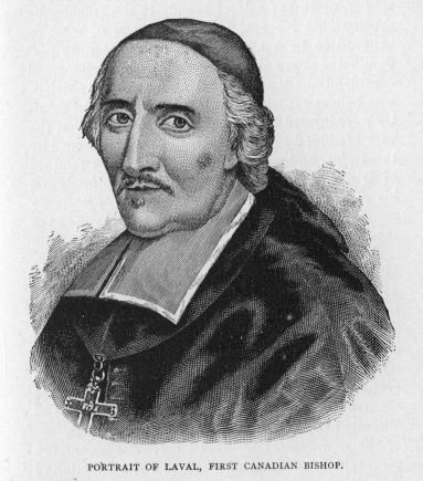 François de Montmorency-Laval, first bishop of Quebec, New France (1659-1684).